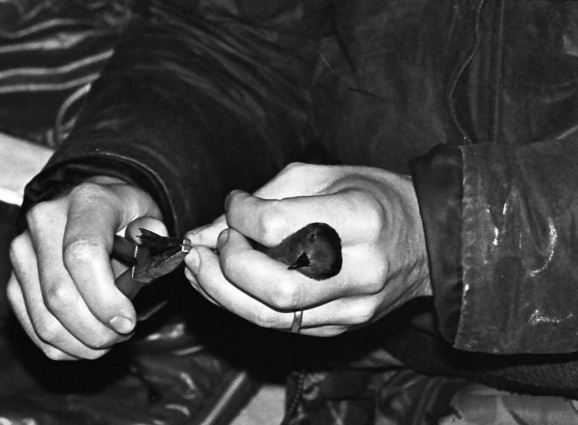 "Ringing" a Storm Petrel by Cape Wrath These tiny, swallow-like birds fly with a non stop wing action and fly in the most atrocious conditions close to the surface of the sea. They nest in burrows and lay a single egg.